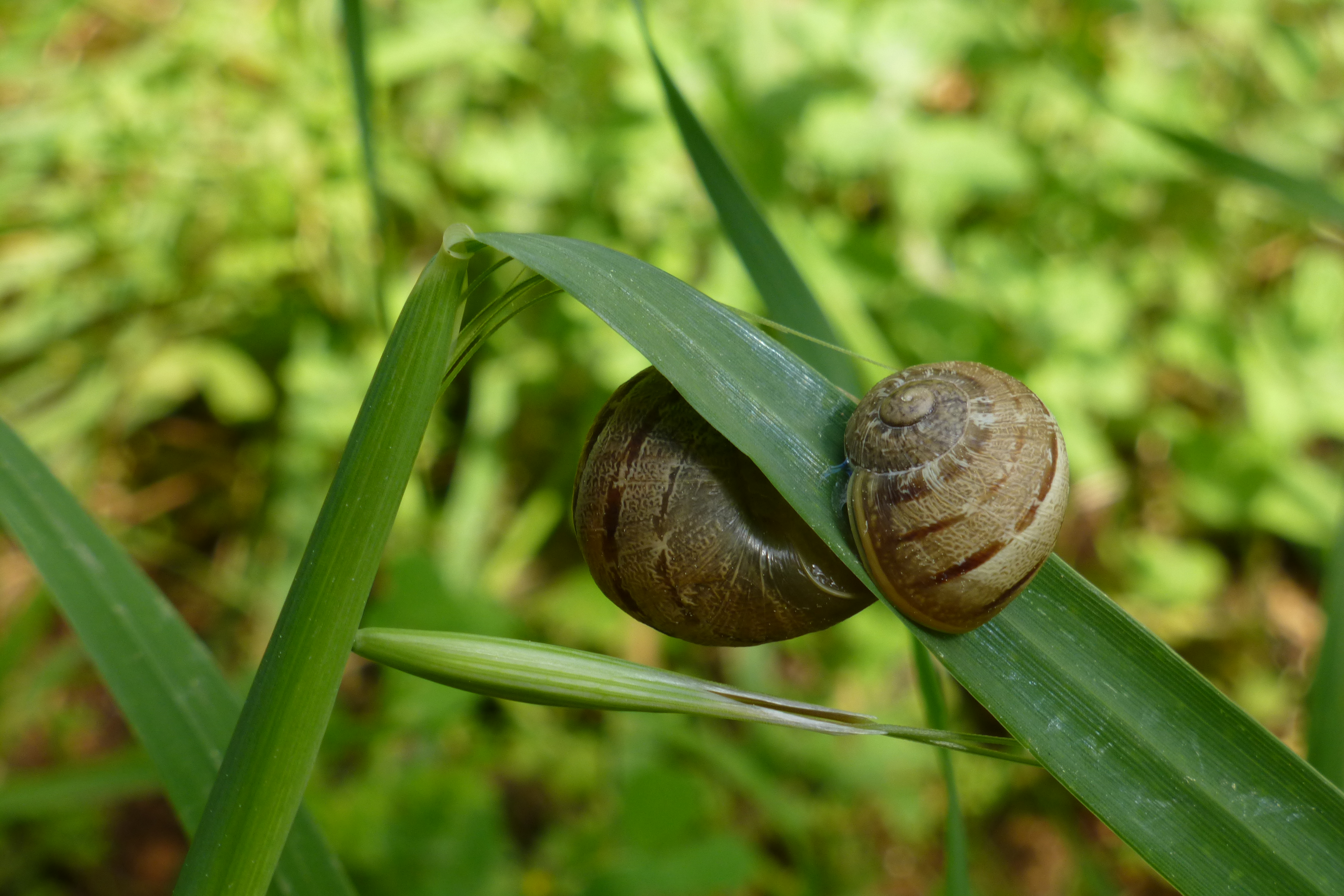 Animals of Israel